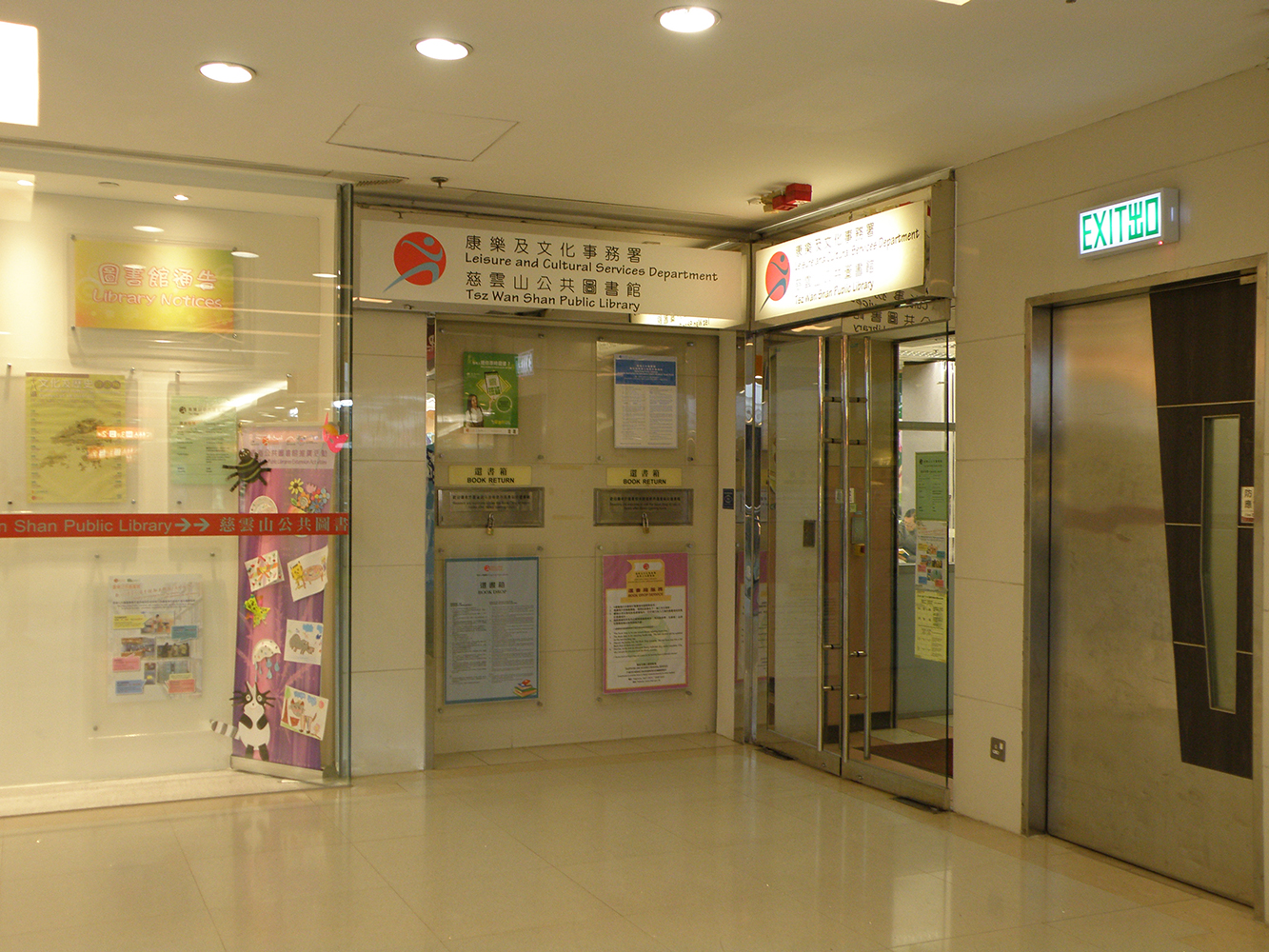 Tsz Wan Shan Public Library in Tsz Wan Shan, Hong Kong.